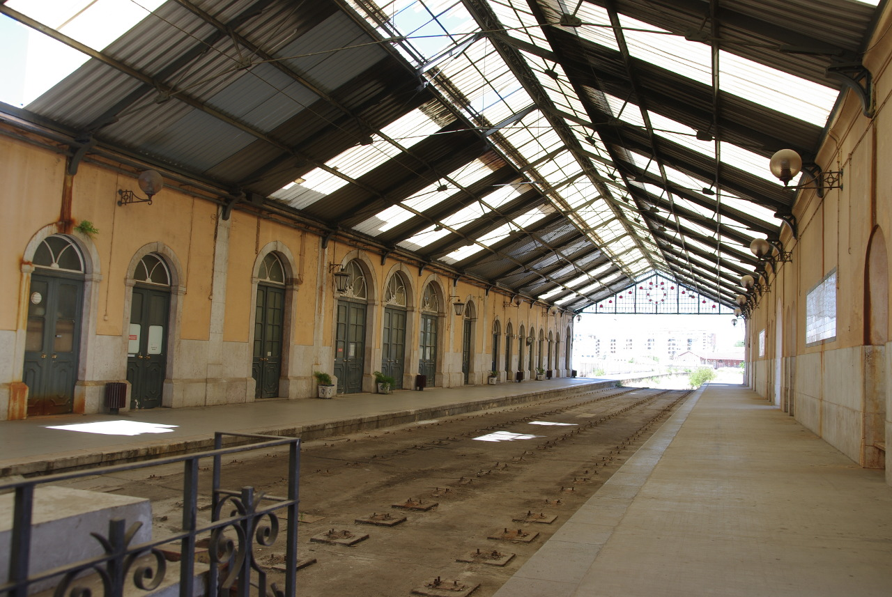 Hall of Barreiro train station without tracks; Barreiro, Portugal